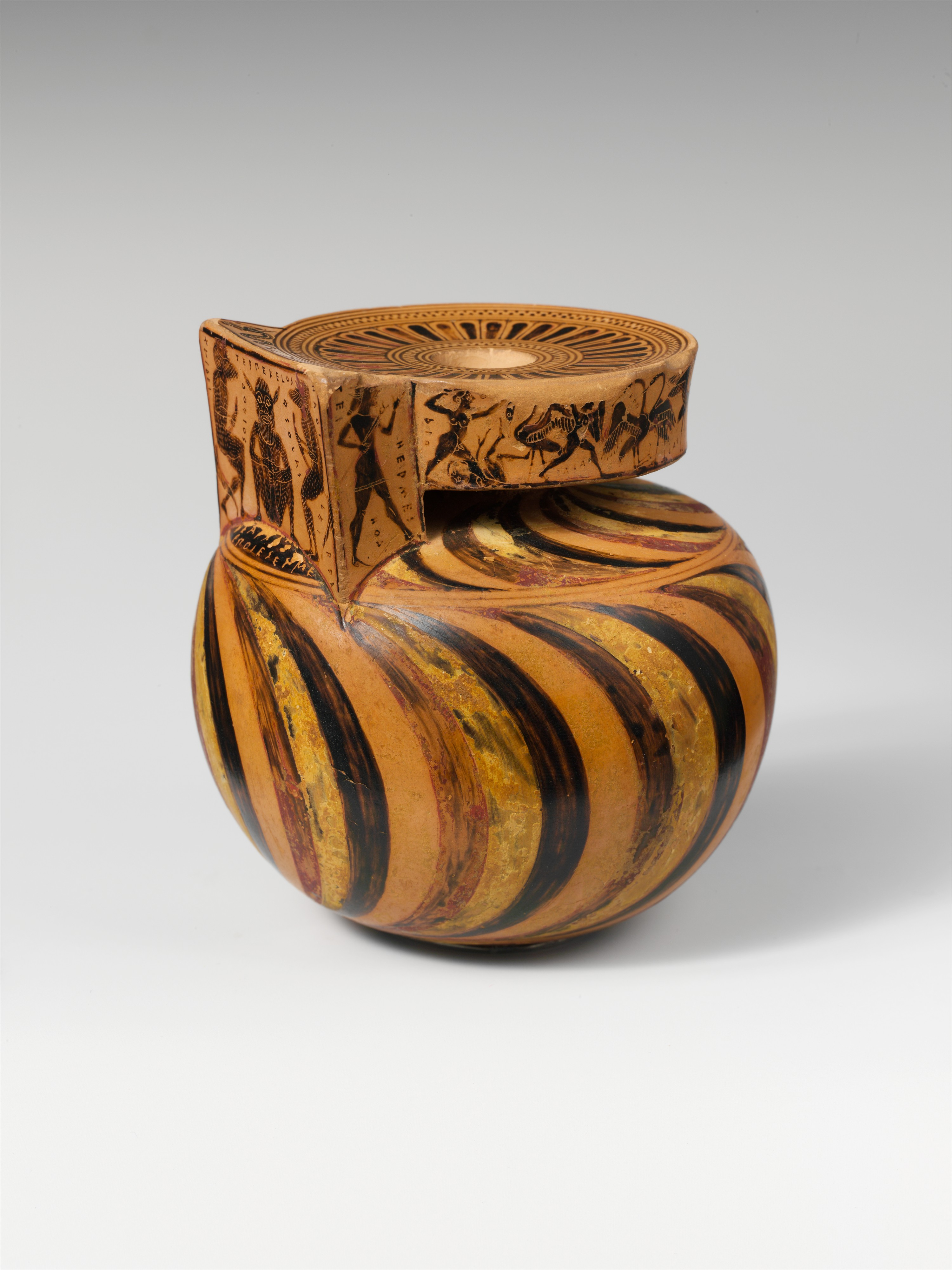 Greek, Attic; Aryballos; Vases; Around the lip, pygmies fighting cranes; Around the main surface of the handle, three satyrs; on the ends, Hermes and Perseus; on top, two tritons